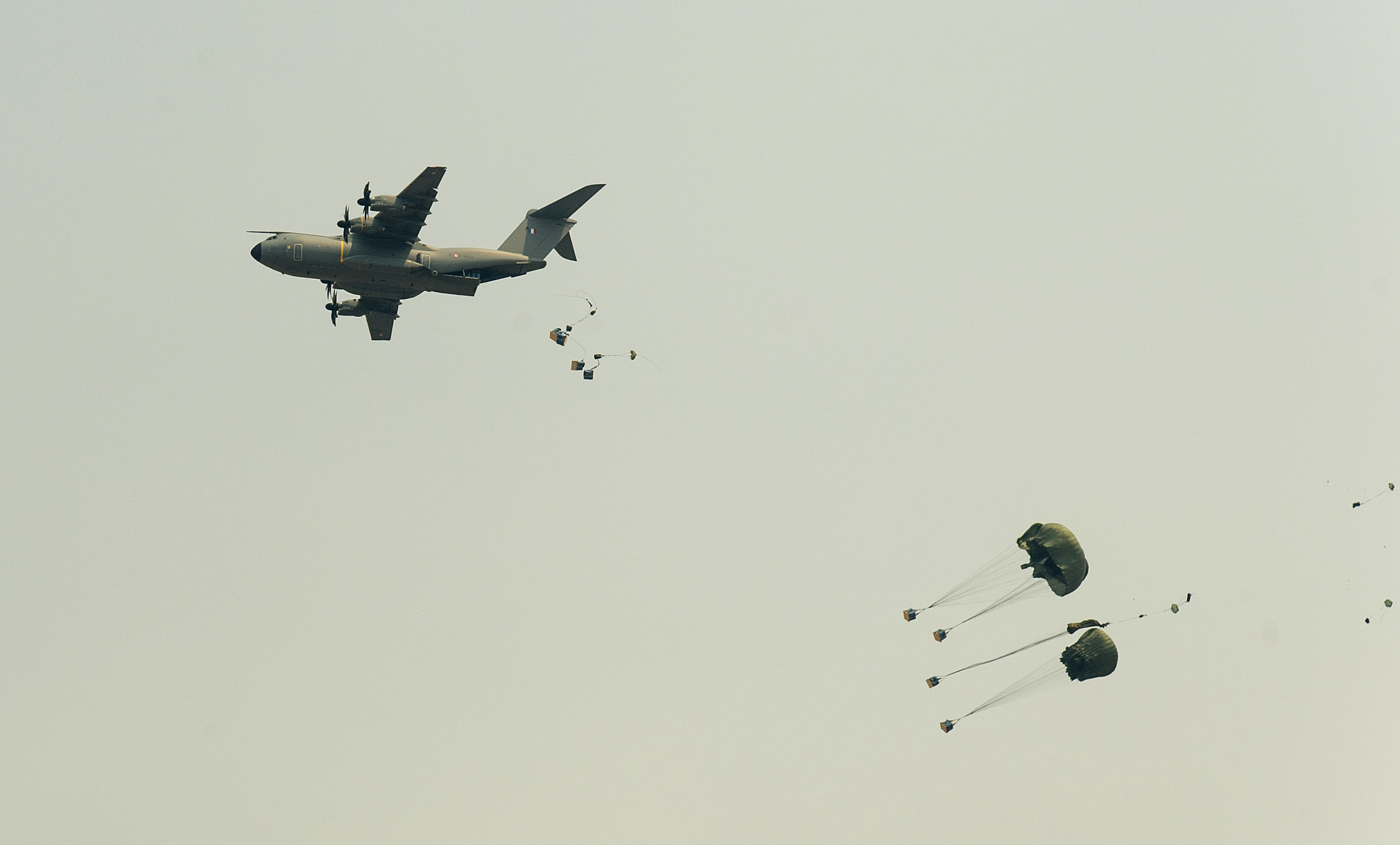 A French Air Force A400M Atlas performs multiple airdrops at Yakima Training Center, Wash., during Exercise Mobility Guardian Aug. 5, 2017. More than 3,000 Airmen, Soldiers, Sailors, Marines and international partners converged on the state of Washington in support of Mobility Guardian. The exercise is intended to test the abilities of the Mobility Air Forces to execute rapid global mobility missions in dynamic, contested environments. Mobility Guardian is Air Mobility Command's premier exercise, providing an opportunity for the Mobility Air Forces to train with joint and international partners in airlift, air refueling, aeromedical evacuation and mobility support. The exercise is designed to sharpen Airmen's skills in support of combatant commander requirements. (U.S. Air Force photo by Senior Airman Christopher Dyer)